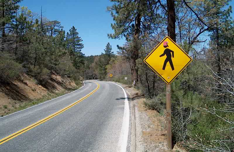 Photograph taken by Philip Erdelsky and released into the public domain.